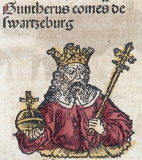 Woodcut from the Nuremberg Chronicle (Latin edition in Sao Paulo)